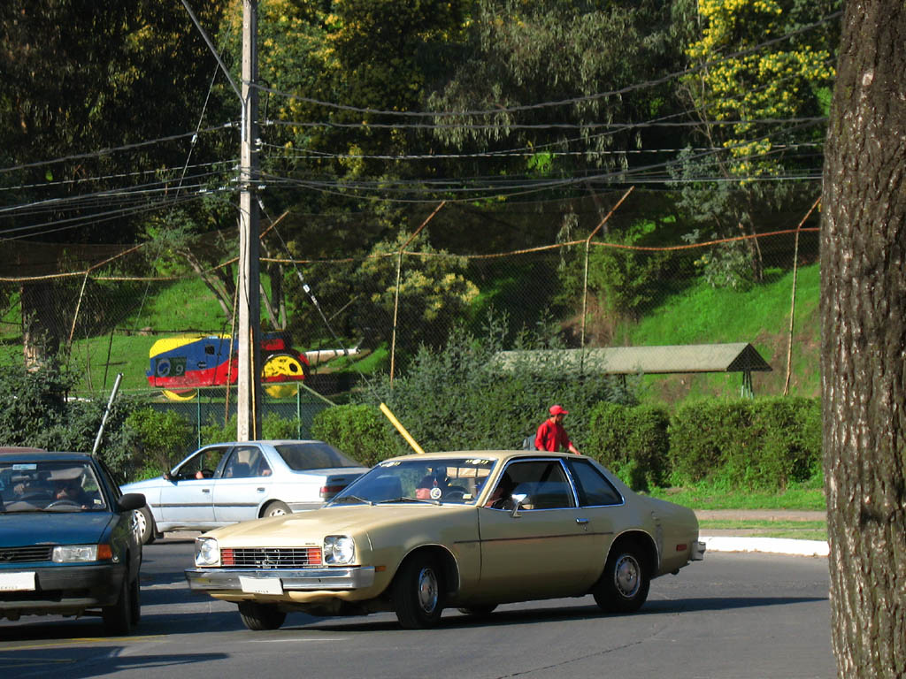 Chevrolet Monza Towne Coupe 1977